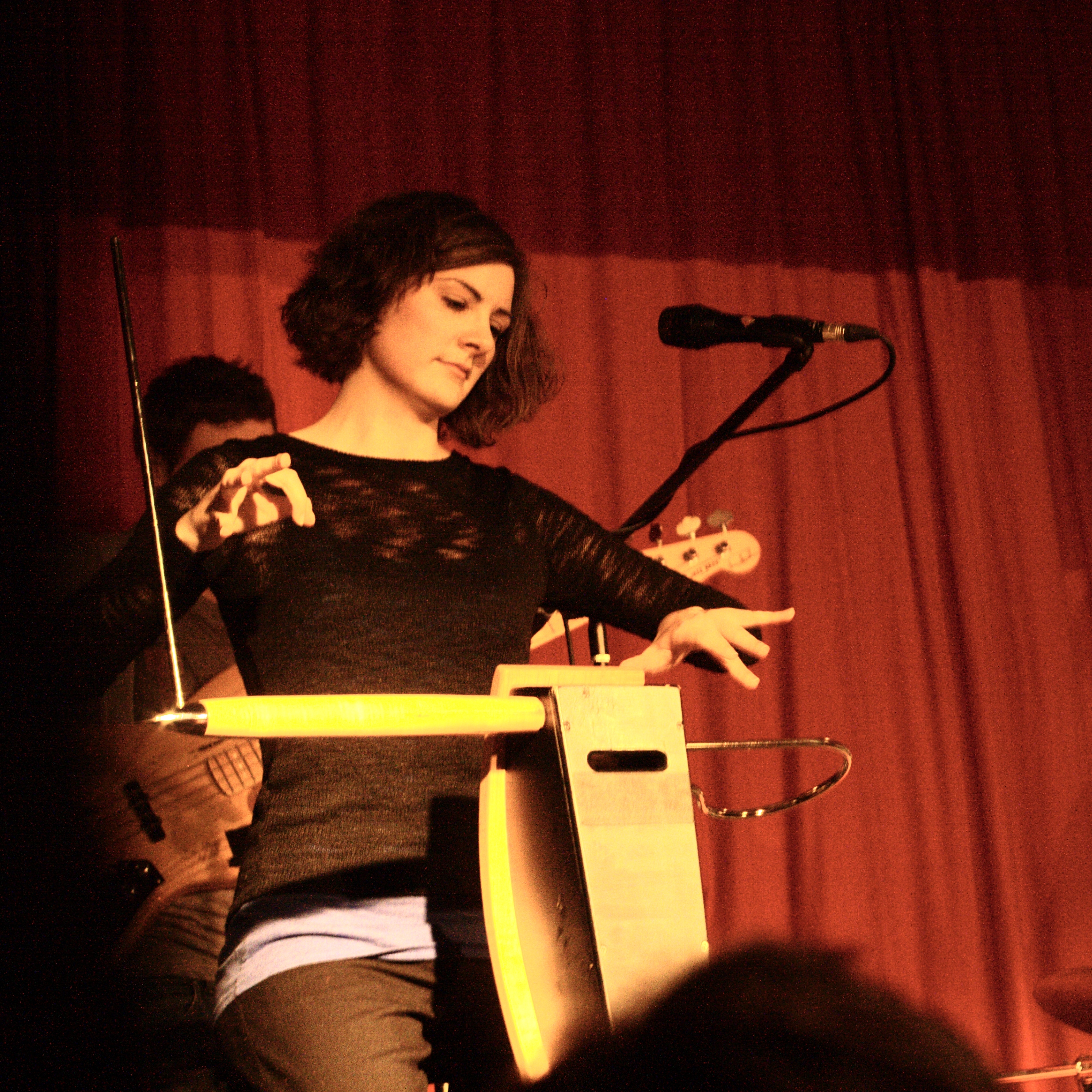 Private picture of Carolina Eyck at a jazz group concert at the "Telegraph" in Leipzig.